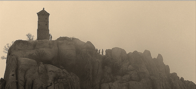 Wulian Mountain (五莲山/五蓮山 Wǔlián Shān) is famous scenic spot in Wulian County, Rizhao, Shandong.